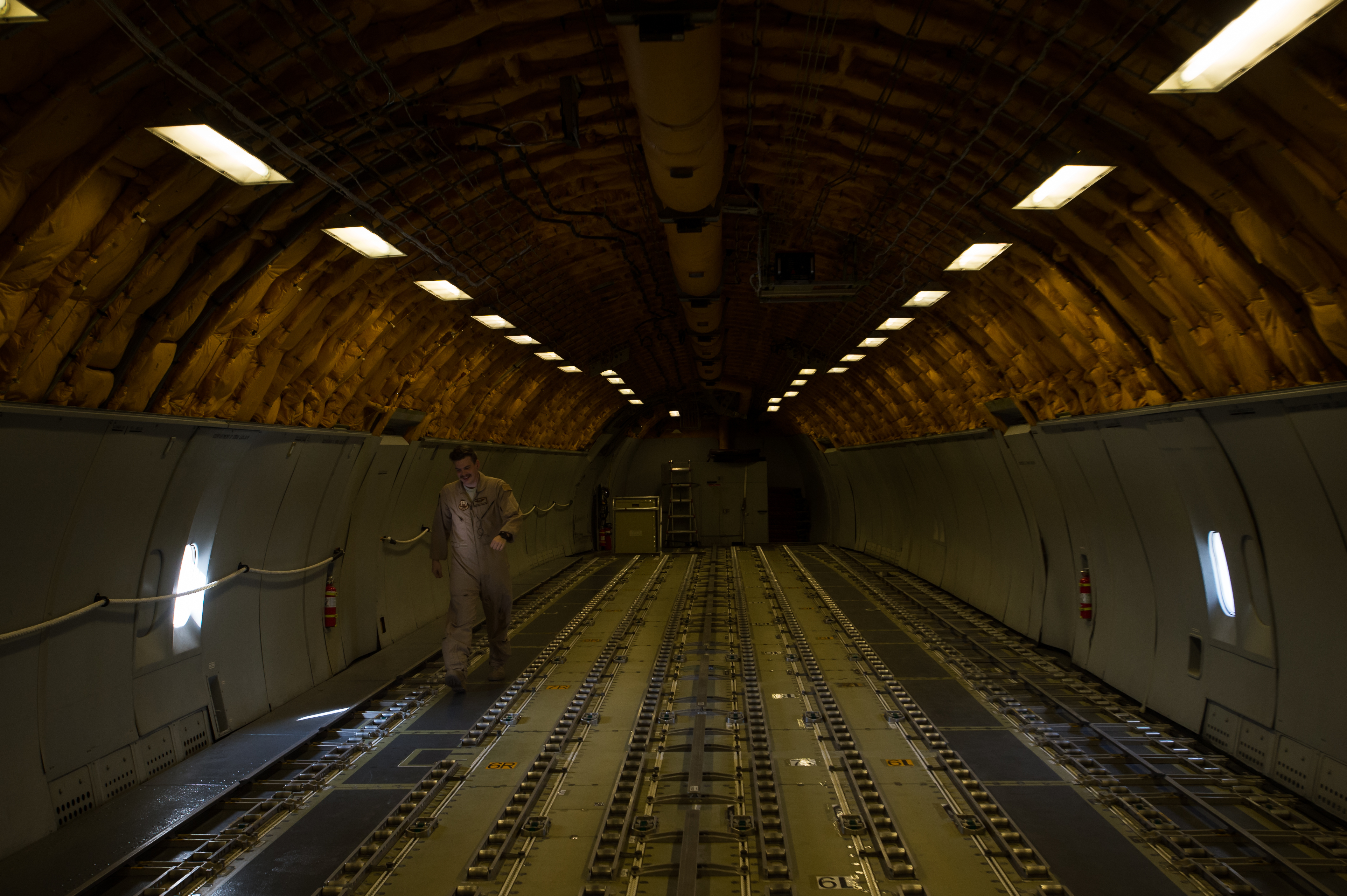 A 380th Air Expeditionary Wing KC-10 Extender boom operator Senior Airman Grant walks toward the cockpit after completing a preflight inspection in the boom pod at an undisclosed location in Southwest Asia, Dec. 25, 2016. 380 AEW KC-10 boom operators have successfully offloaded fuel to more than 5,000 Coalition receivers in support of Combined Joint Task Force-Operation Inherent Resolve since Oct. 2016. Combined Joint Task Force-Operation Inherent Resolve is the global Coalition to defeat ISIL in Iraq and Syria. (U.S. Air Force photo/Senior Airman Tyler Woodward) Unit: 380th Air Expeditionary Wing DVIDS Tags: Refueling; Meals; Crew Chief; Food; Crew; Pilot; Mosul; USCENTCOM; AEW; Combined; KC-10 Extender; Christmas; Holidays; Air Refueling; AFCENT; Green Mountain Boys; Sortie; F-16 Fighting Falcon; Iraq; 380th Air Expeditionary Wing; Liberation; Boom Operator; ISIS; ISIL; Operation Inherent Resolve; OIR; CJTF-OIR; Defend the Region; Join Task Force-Operation Inherent Resolve; Deliver Decisive Airpower